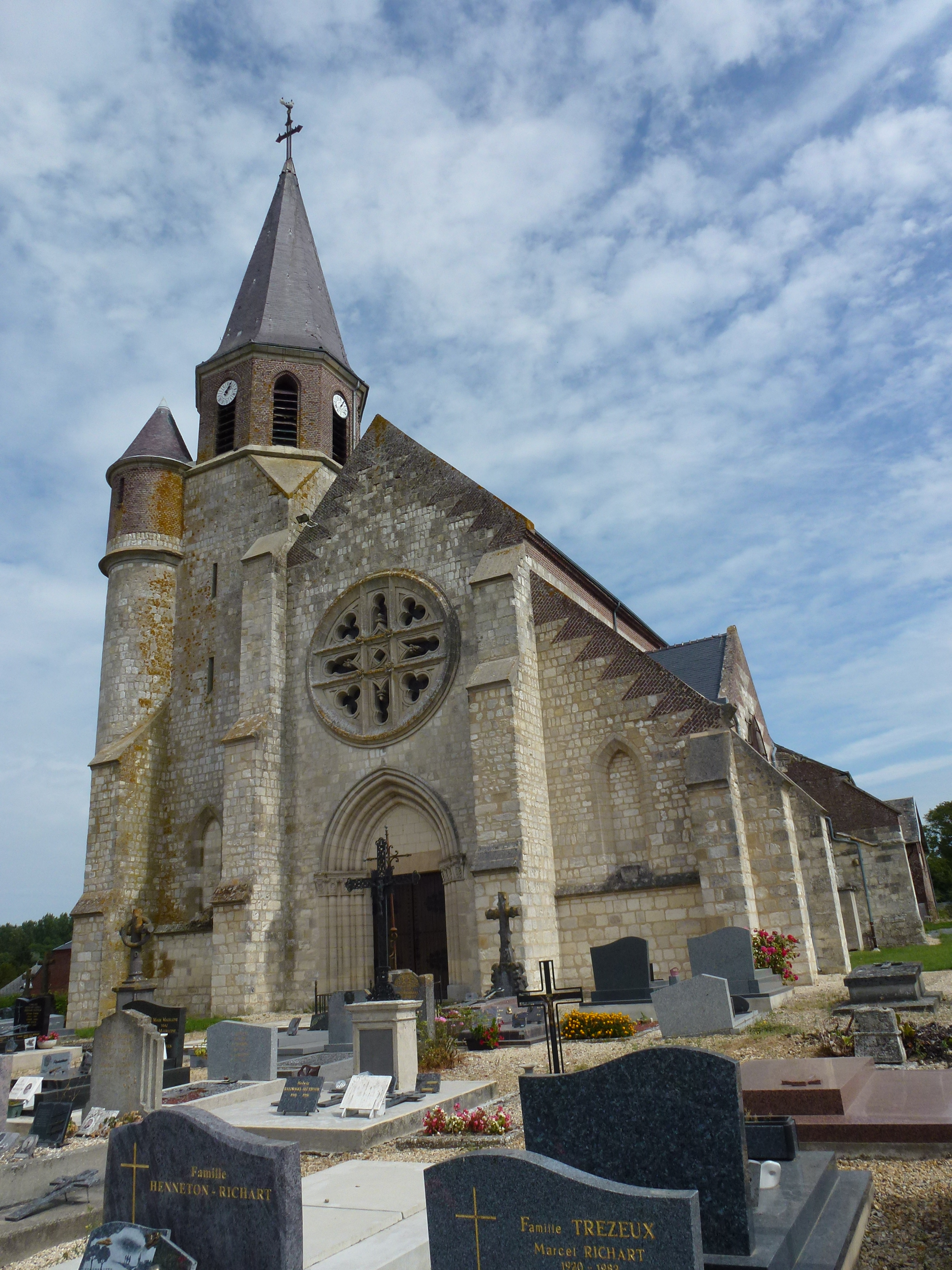 Renneville (Ardennes) église St-Nicolas